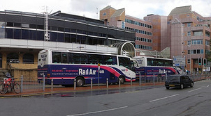 A panorama formed from 3 hand-held photos. Station Road, Reading, UK. Taken on 2006-09-30.